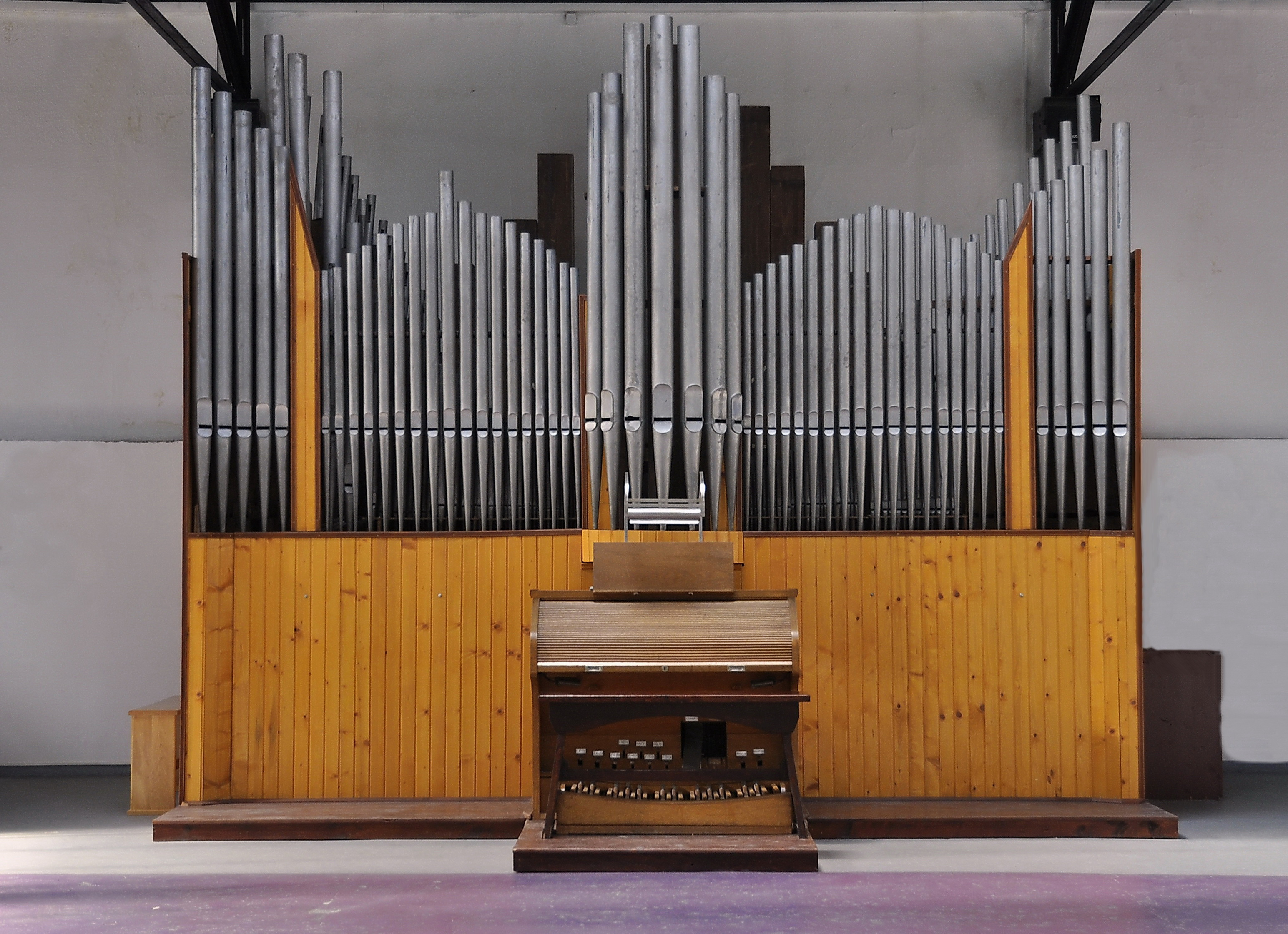 Organs Kaufman located in Museum of Science and Technology Belgrade.